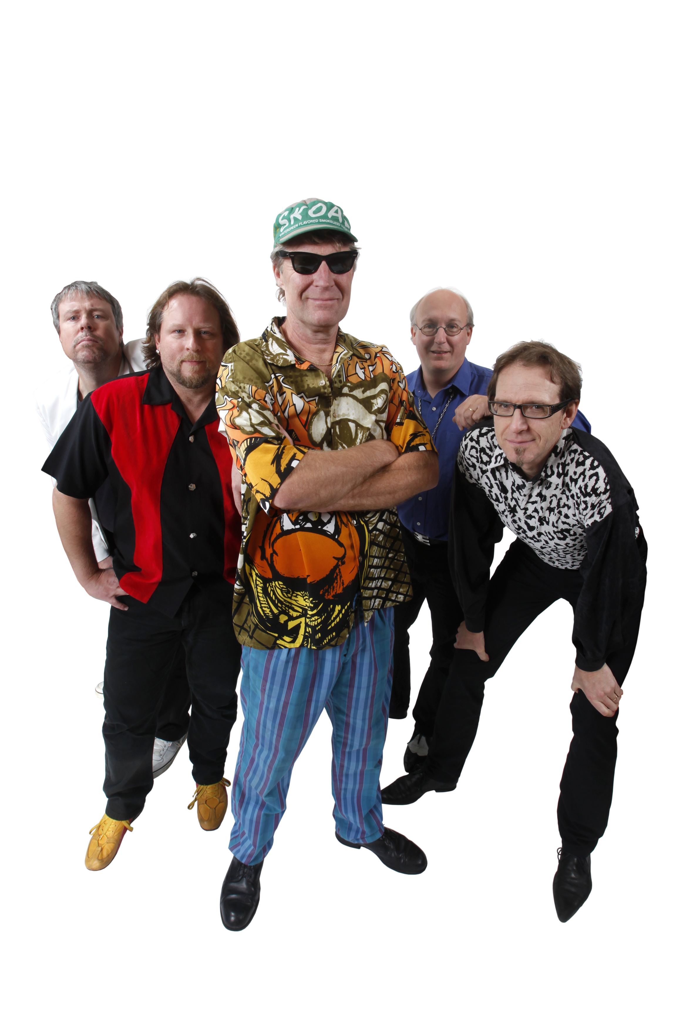 Svenne Rubins, photo from studio